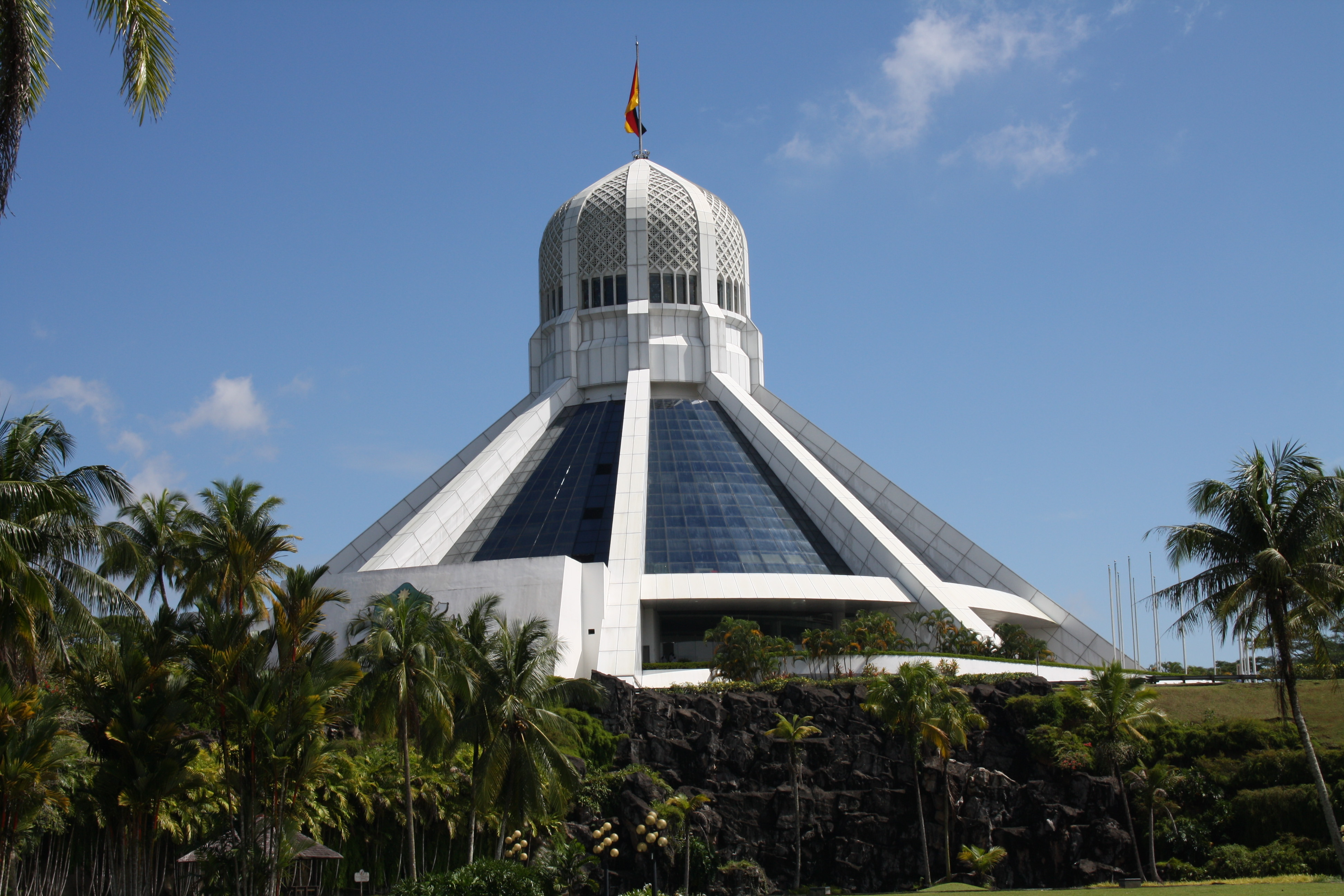 The Kuching North City Hall. The Kuching Cat Museum is located inside this building.